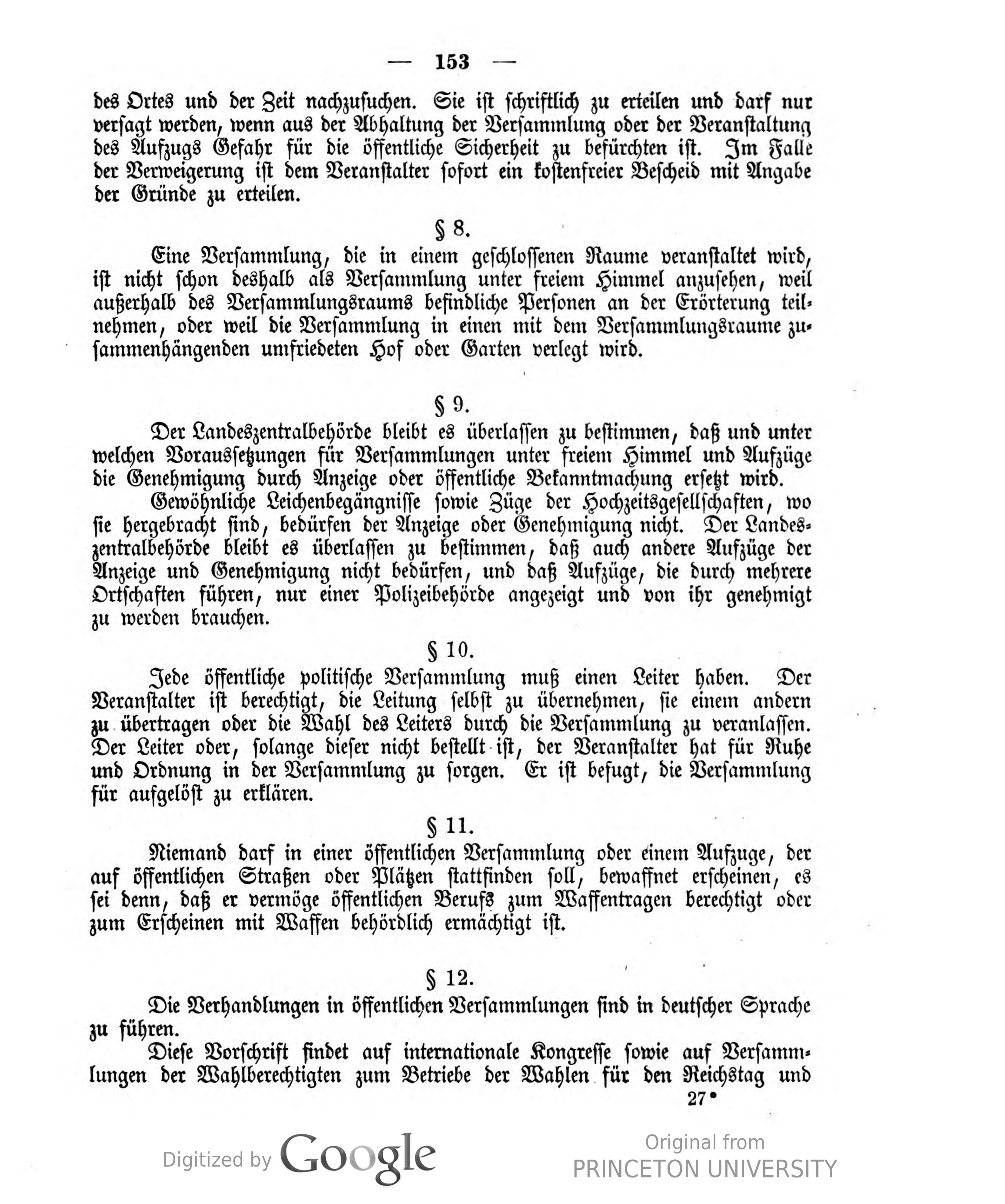 Scan from the Imperial Law Gazette of Germany, 1908